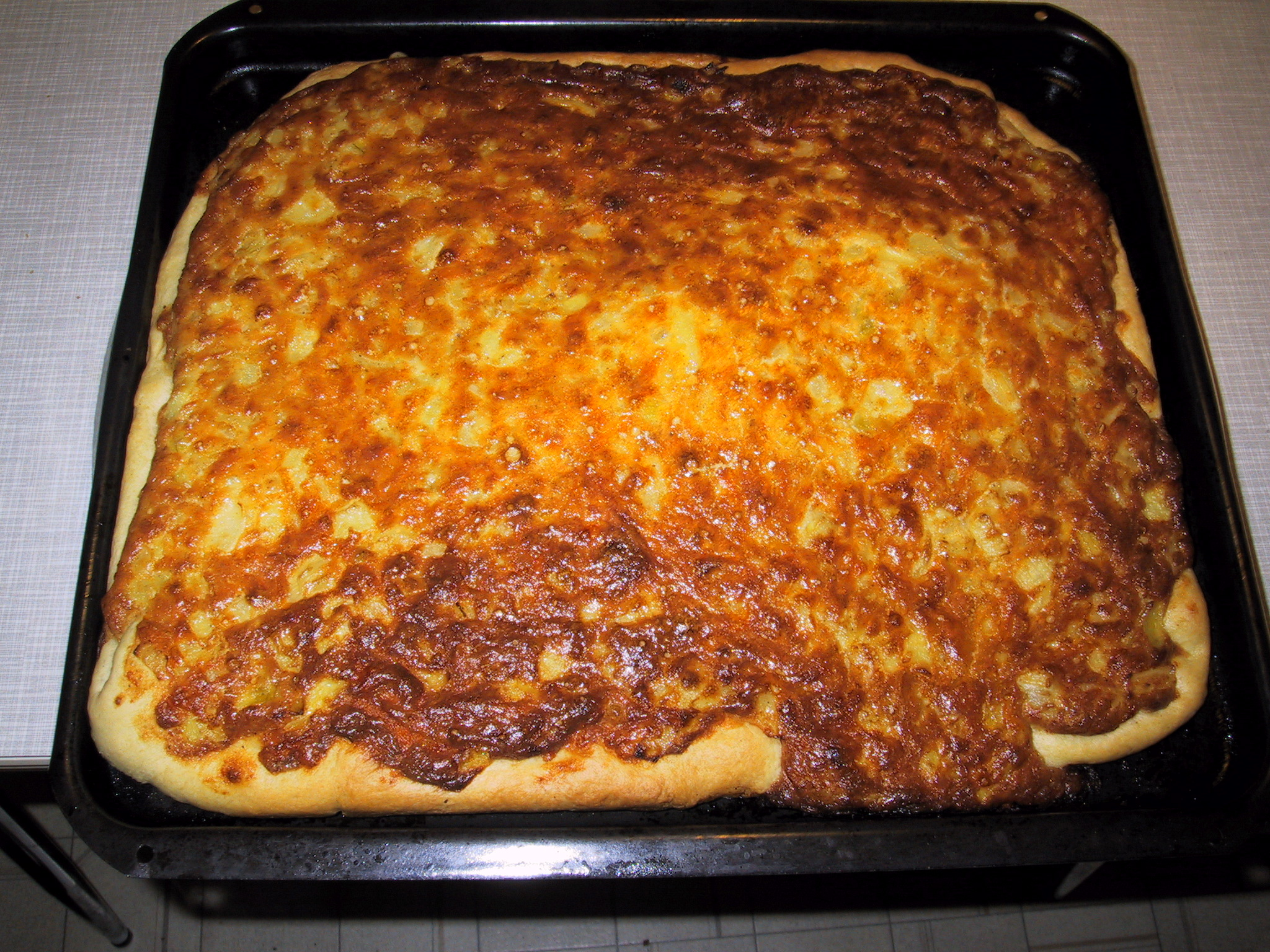 Traditional Austrian/Swiss cheese dish